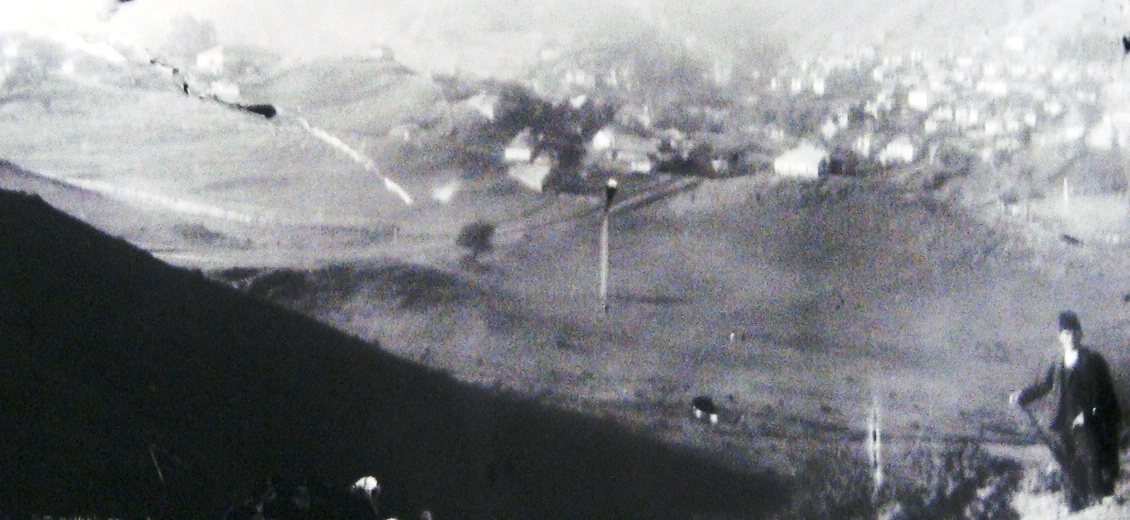 Panorama of the village Turia, photographed between 1898-1912 (Damaged glass plate) This media file is produced by Wikipedian in Residence in Category:Wikipedian in Residence at DARM in 2016.